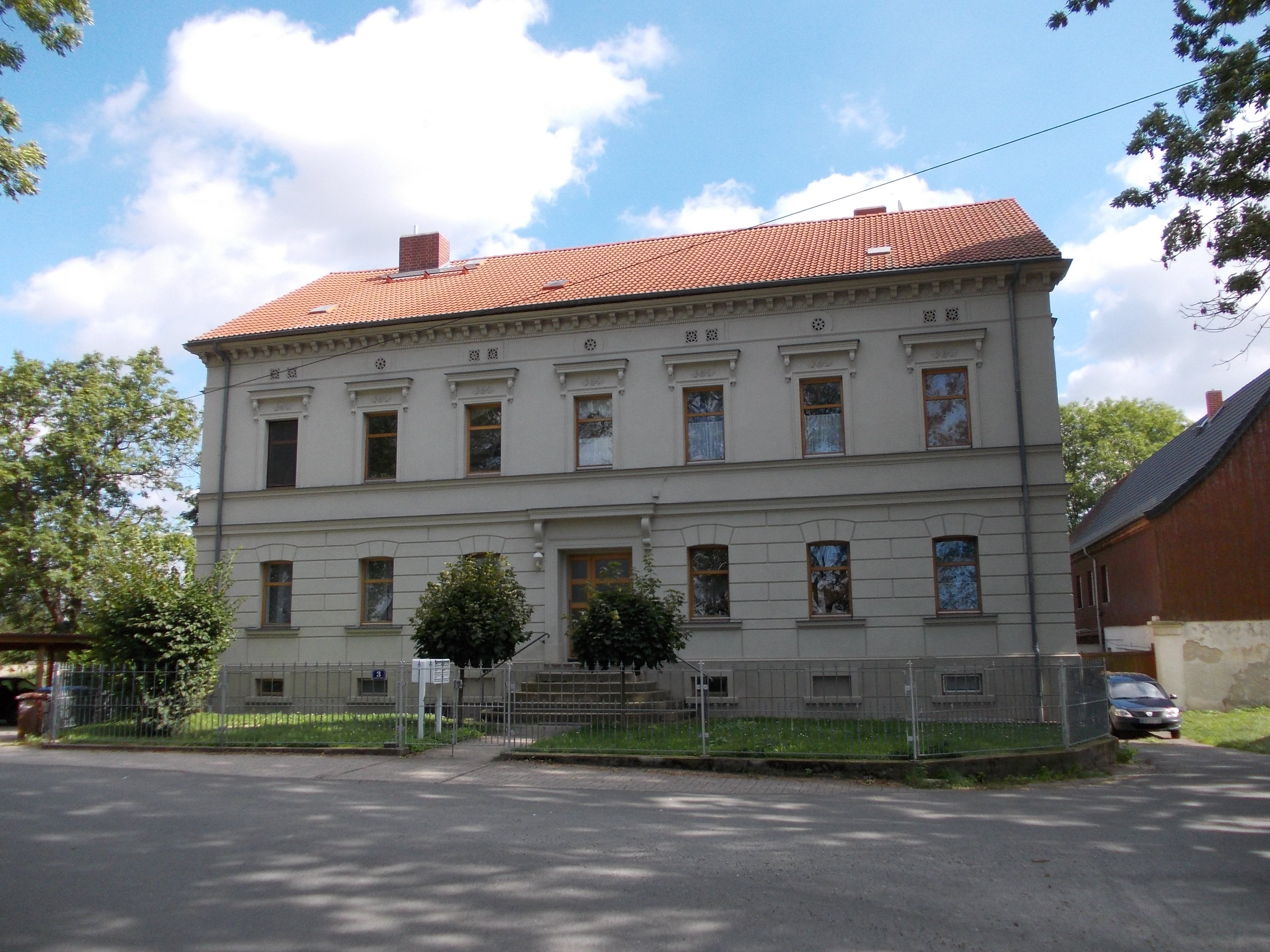 Zellschen manor house (Meineweh, district of Burgenlandkreis, Saxony-Anhalt)